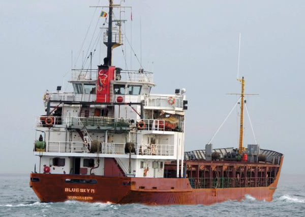 Drawing of the cargoboat Blue Sjy M" since some pictures according with [1]